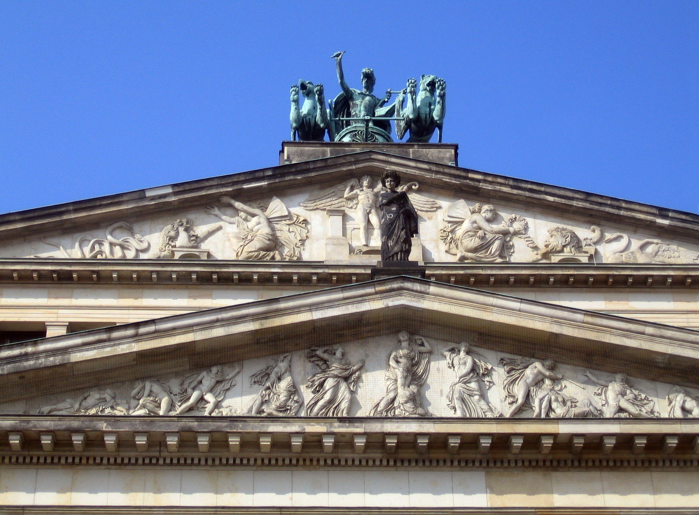 Konzerthaus (concert hall) Berlin. Tympanums above the main entrance. Sculptures created by Christian Friedrich Tieck about 1820.